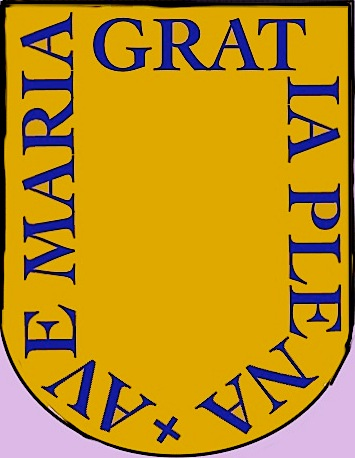 Coat of arms of the "de la Vega" lineage from Castile, Spain, since XIII century.